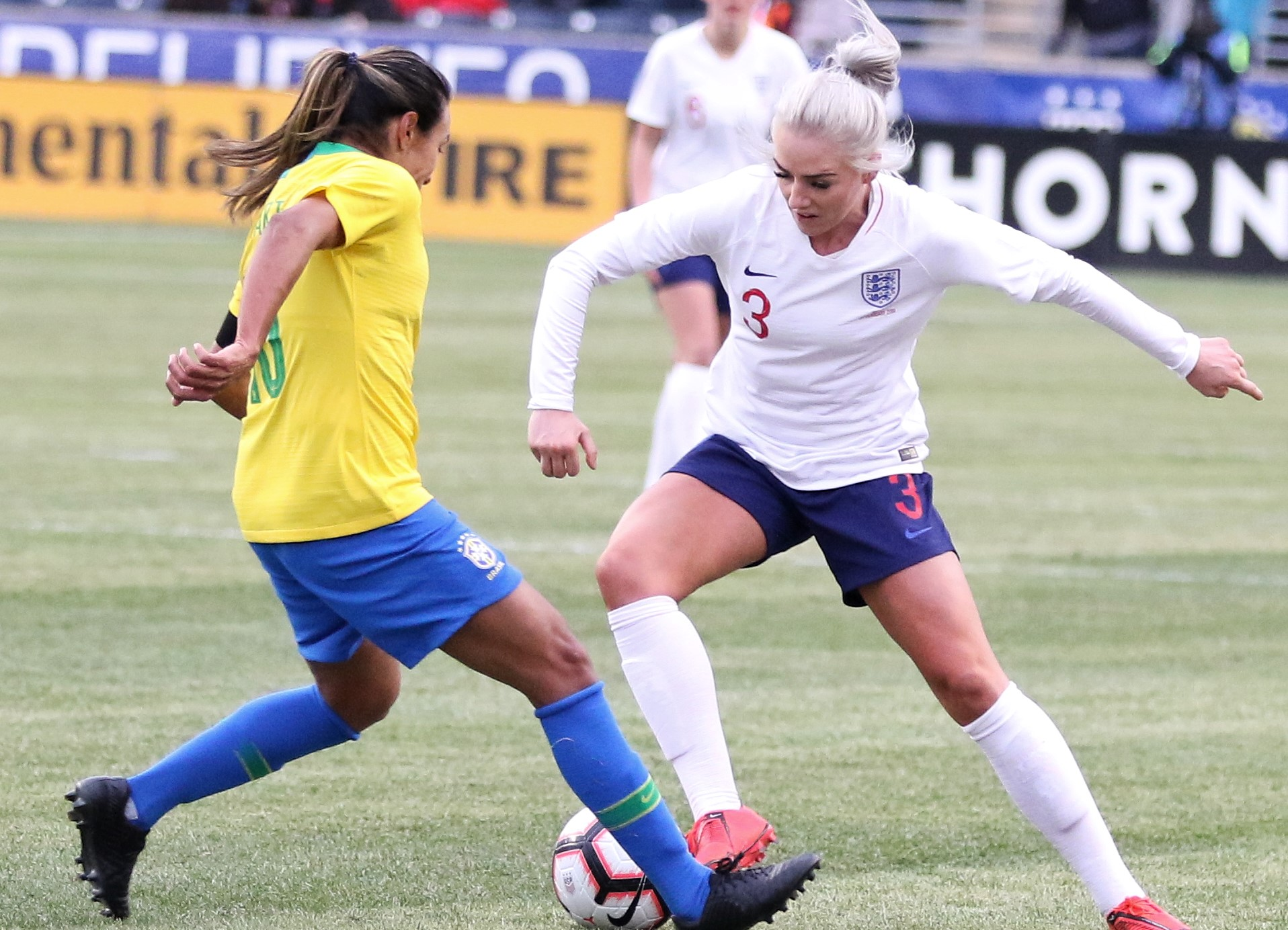 Marta & Alex Greenwood disputing the ball in a match between England and Brazil on February 27, 2019.